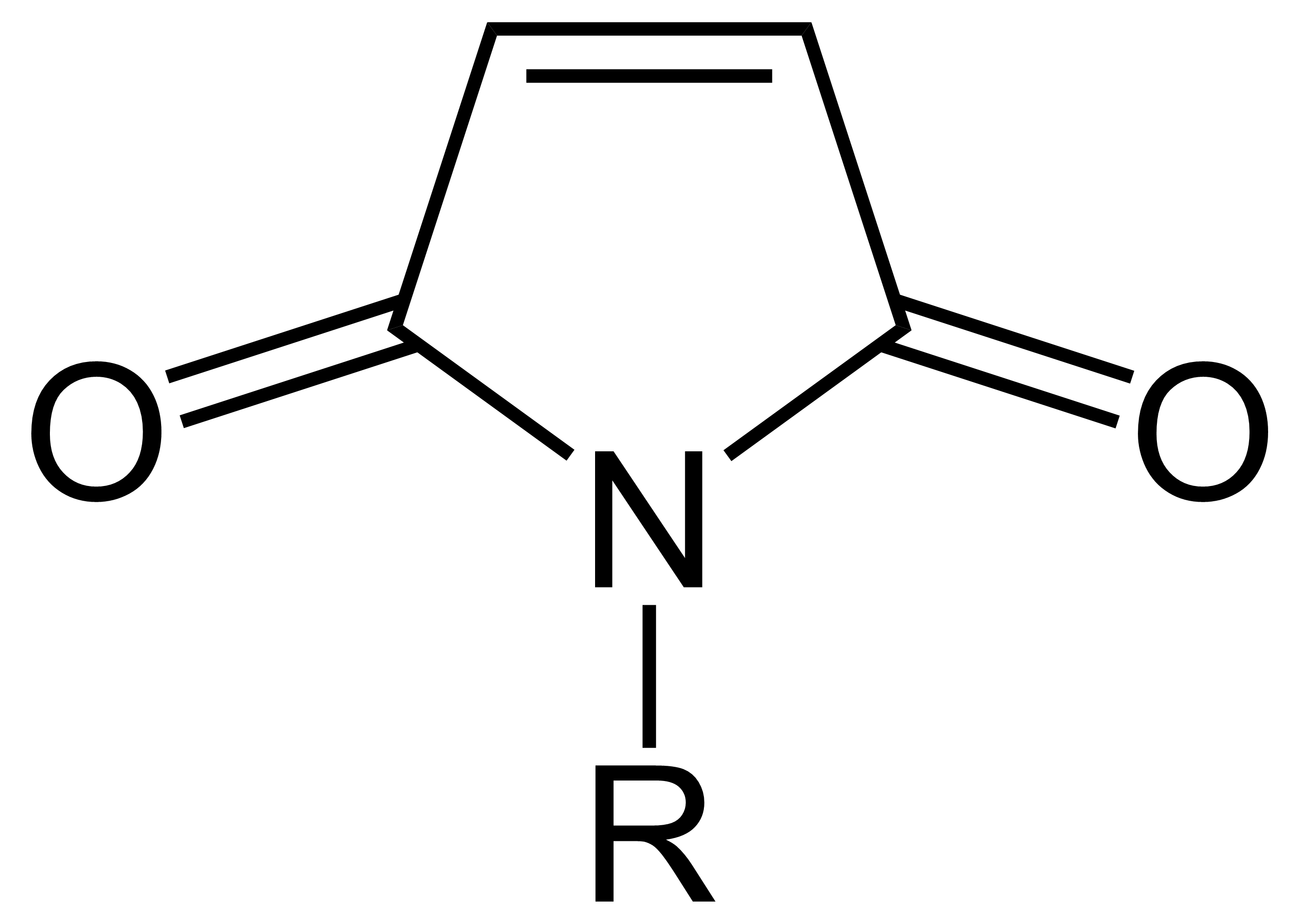 General structure of maleimides